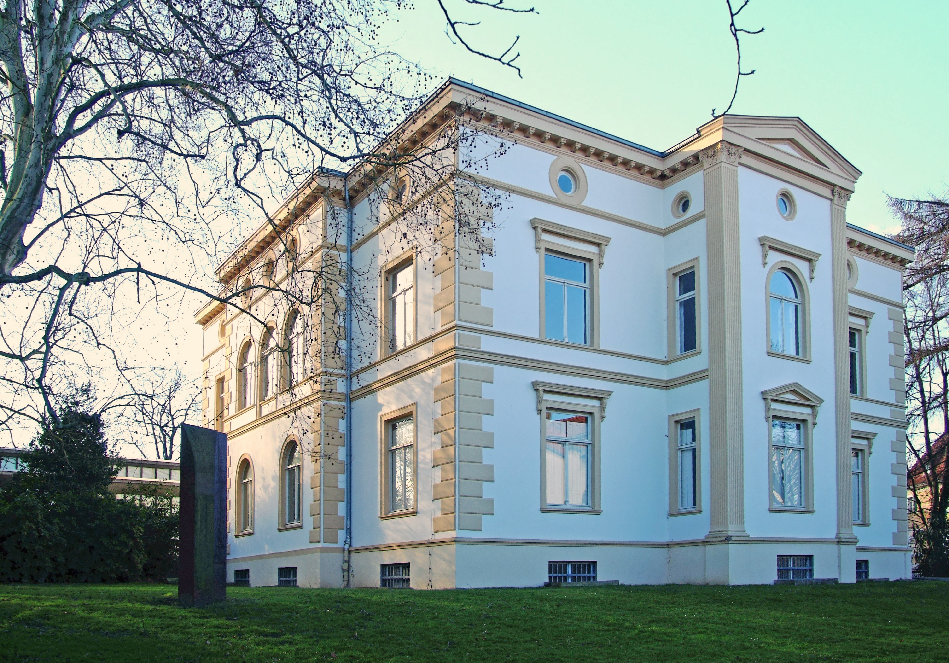 The Photo shows the Villa Schoenfeld in town of Herford, District of Herford, North Rhine-Westphalia, Germany. It is better known as Daniel Poeppelmann house because of the famous architect that was born here. Daniel Poeppelmann was the builder of the Zwinger in Dresden, Germany.